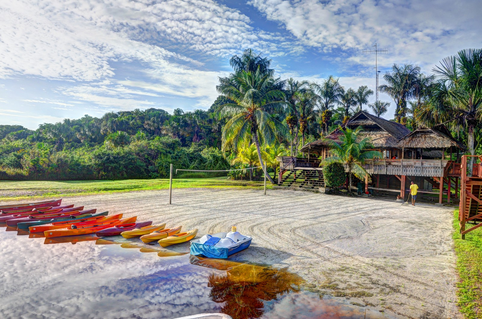 Arrowpoint HDR